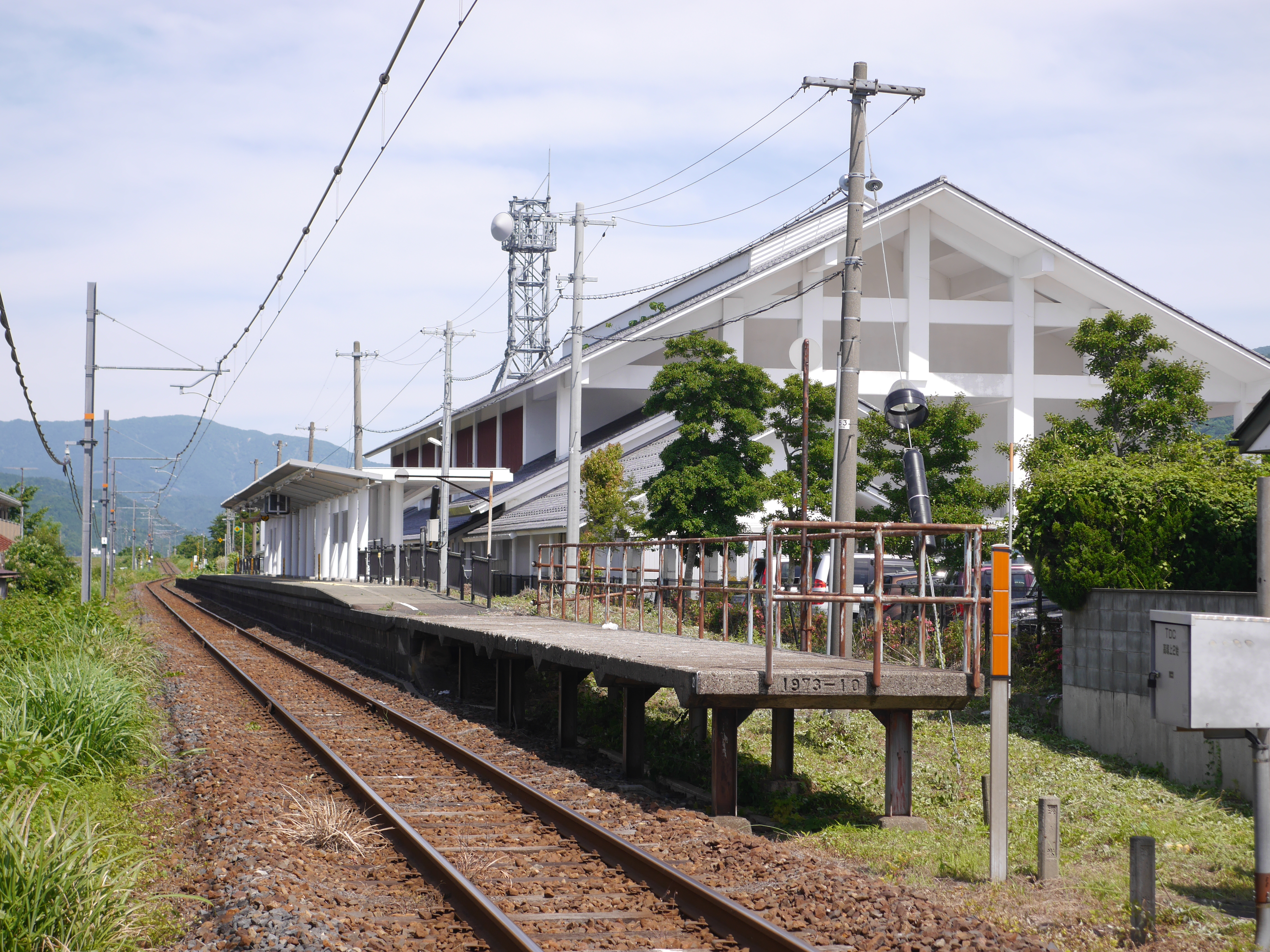 Overview of Higashi Obama station in Fukui Prefecture, Japan